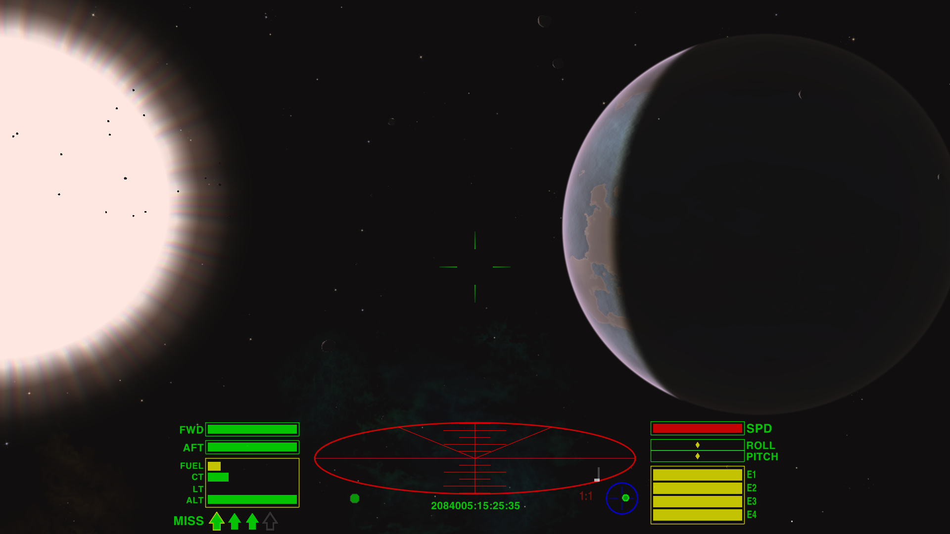 Screenshot of Oolite version 1.84